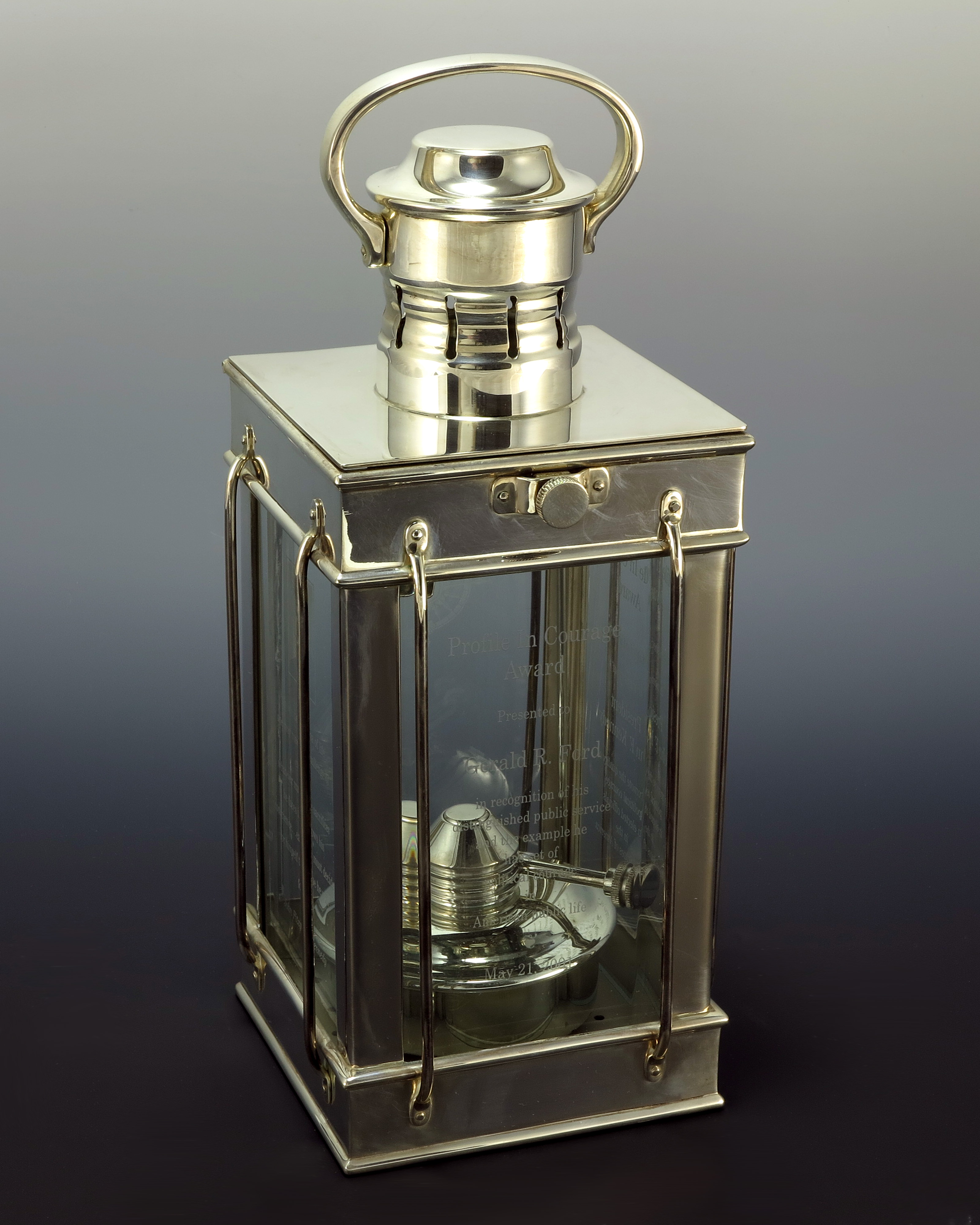 The John F. Kennedy Profile in Courage Award presented to Gerald R. Ford by Senator Edward Kennedy on May 21, 2001.